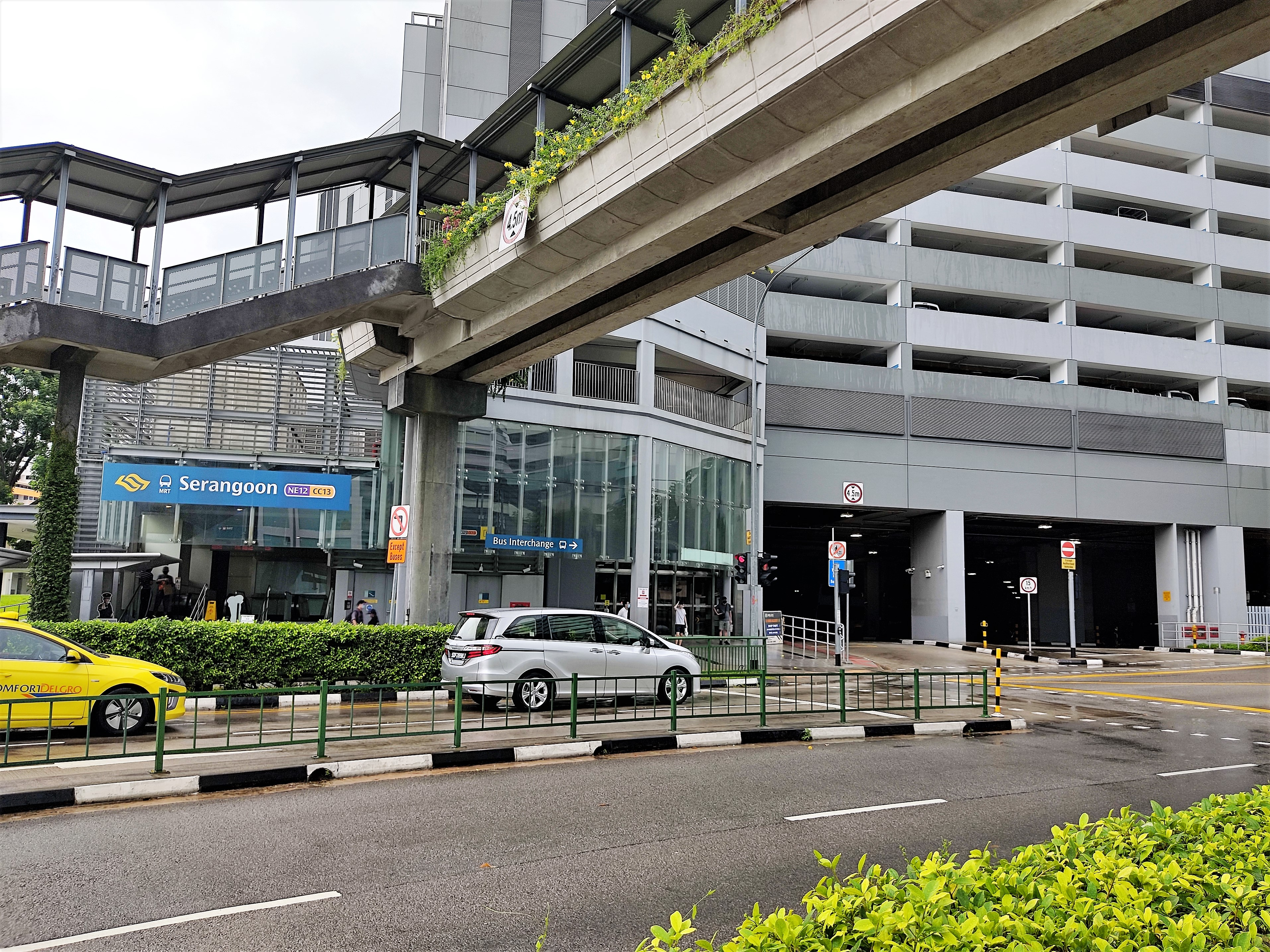 Exit F of Serangoon station and bus interchange